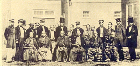 The First embassy of Japan to the United States. 1860 photograph. US Navy photograph.